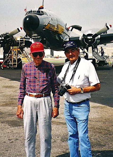 My own work. I, Jennifer Ware, took this photo. Joseph F. Ware, Jr., left; Gil Cefaratt, right.